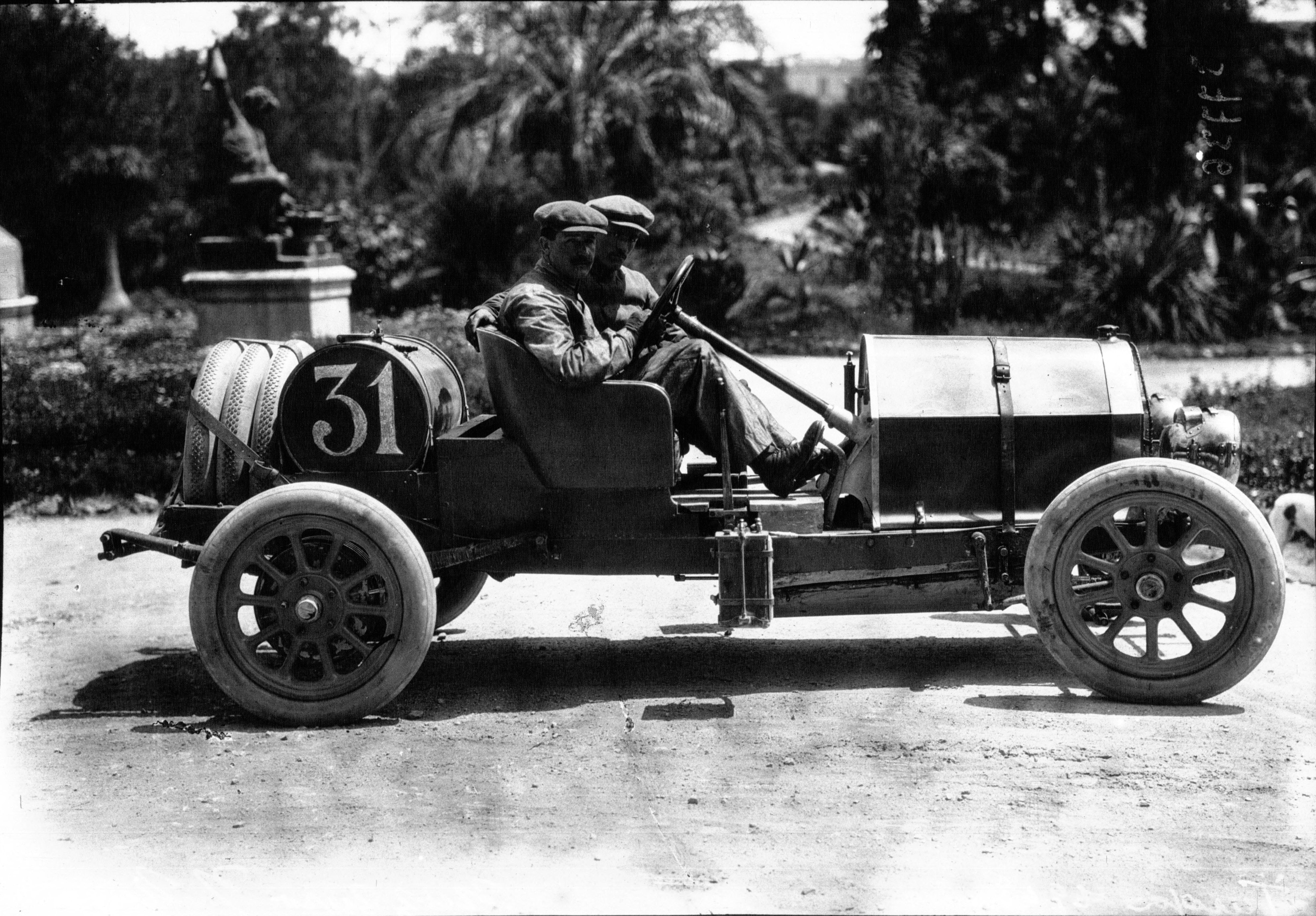 Felice Nazzaro in his Nazzaro at the 1913 Targa Florio.